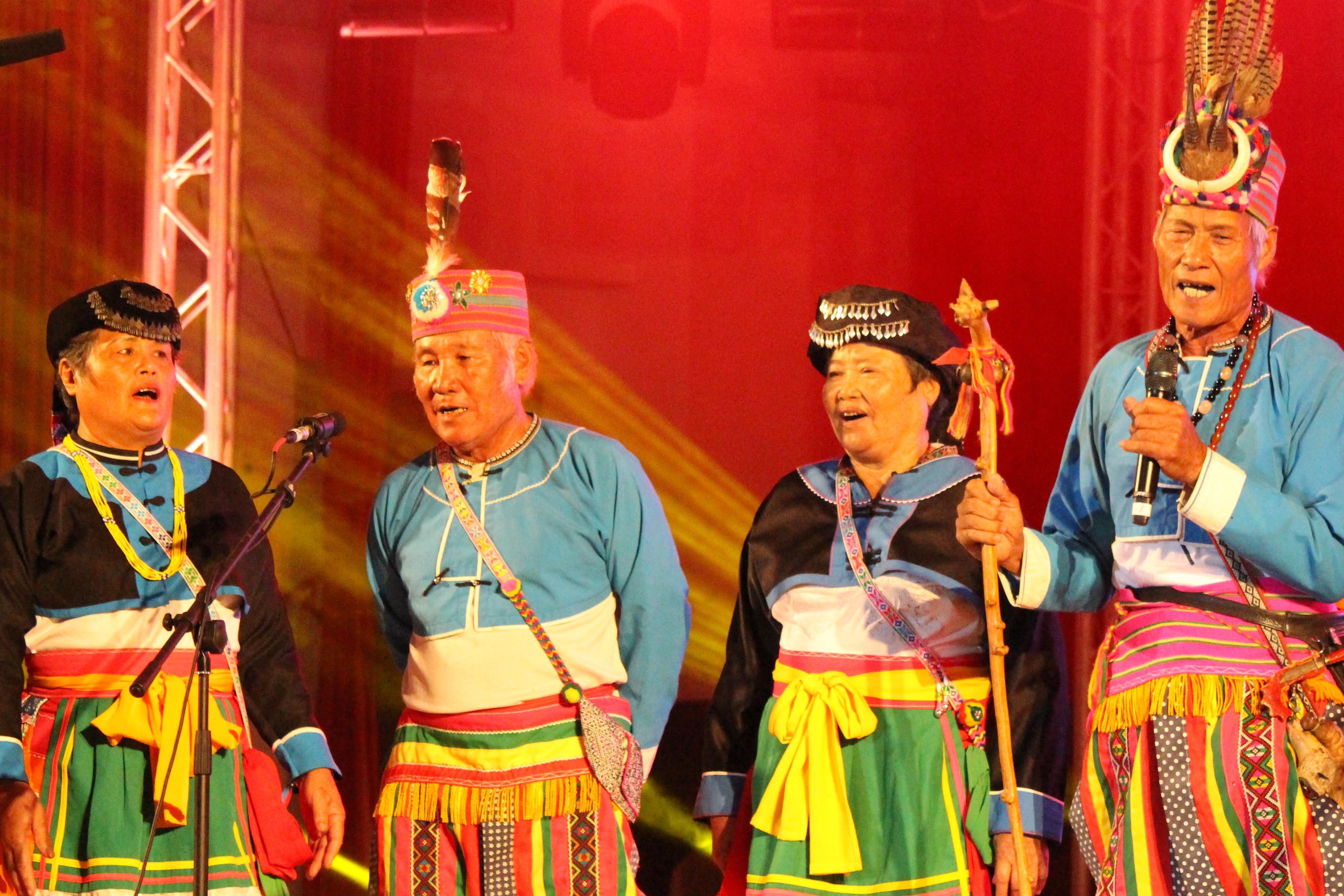 "Dulan Elders Voice" ("都蘭長者之聲") performing at the 2016 Amis Music Festival (阿米斯音樂節) in Dulan Village (都蘭), Taitung County, Taiwan